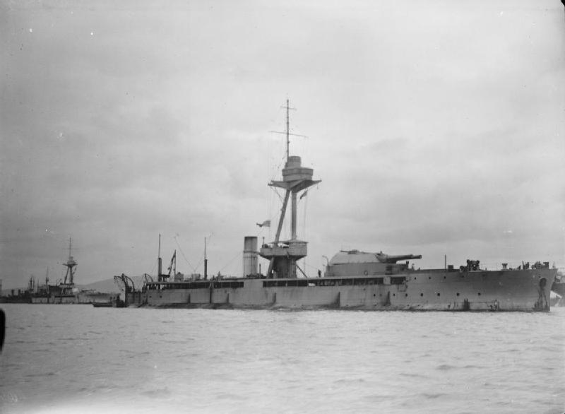 British monitor HMS Earl of Peterborough with HMS Roberts astern, Mudros.